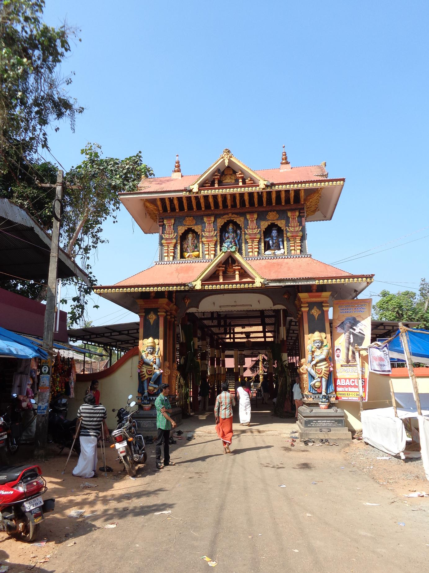 temple gate of Evoor Srikrishna temple